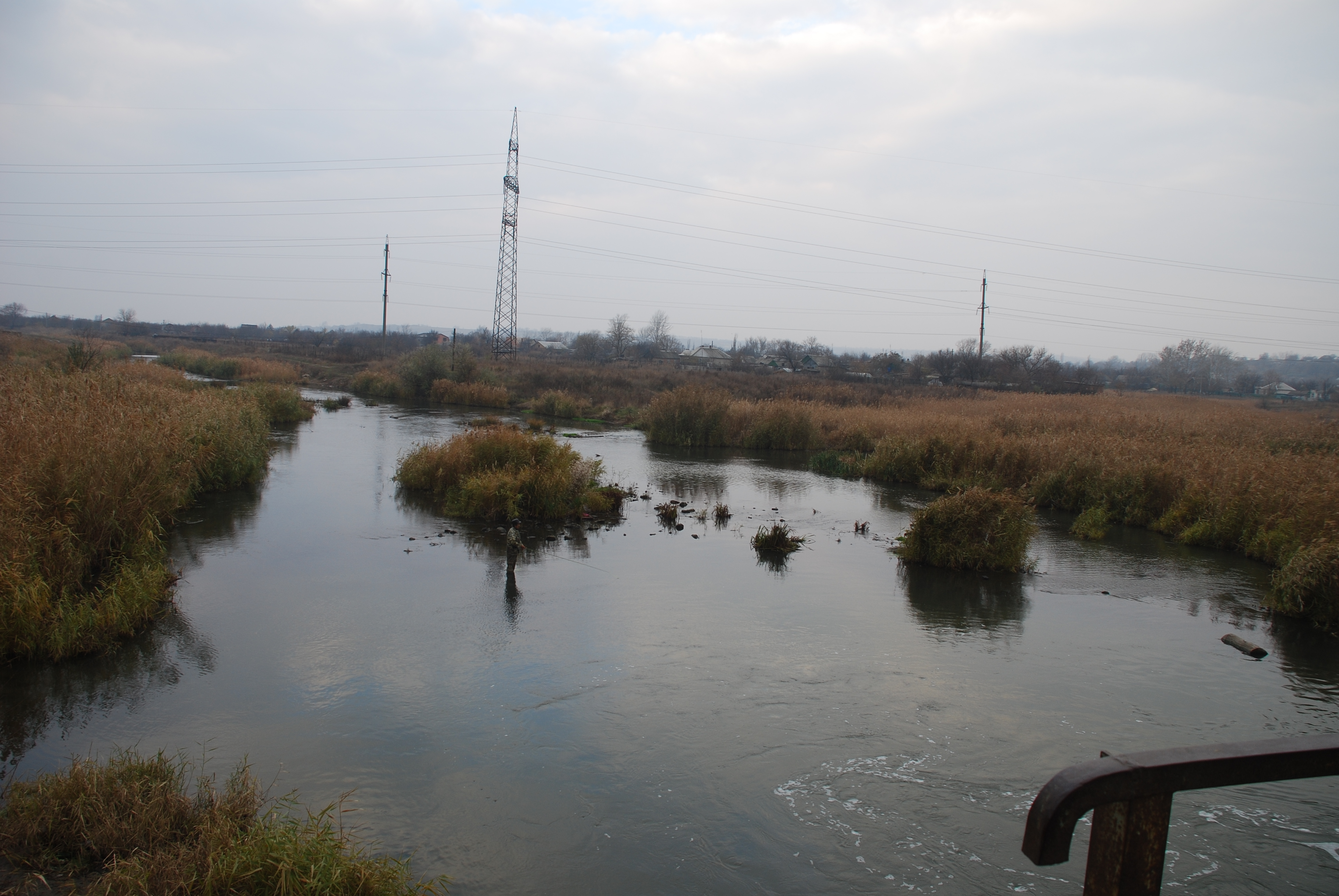 Grushevka River near Molodyozhny.